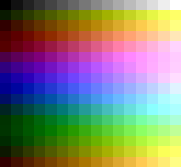 the palette used in Atari's 8-bit line of computers with a GTIA chip